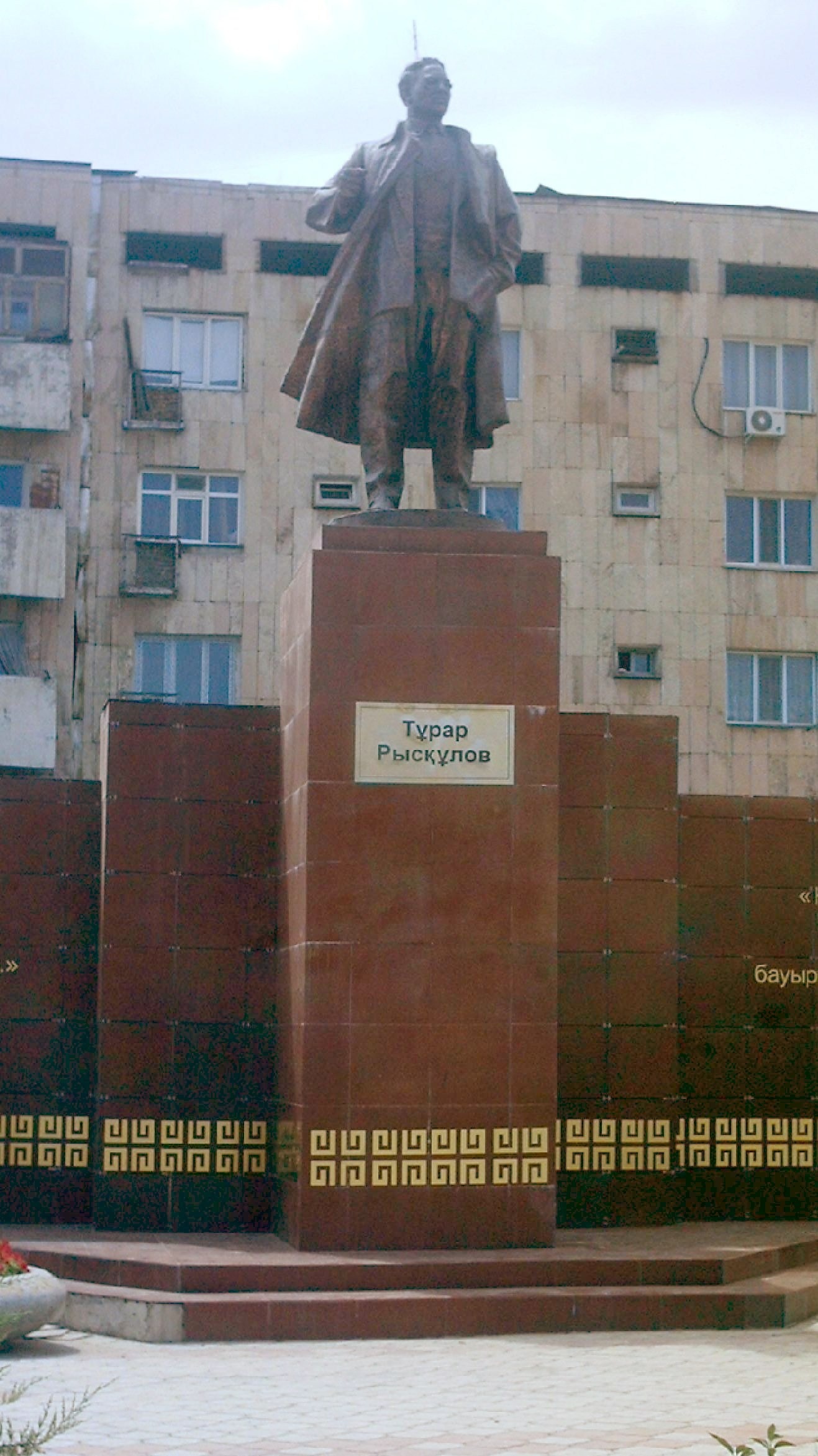 The monument of memory to Turar Ryskulov in Shymkent